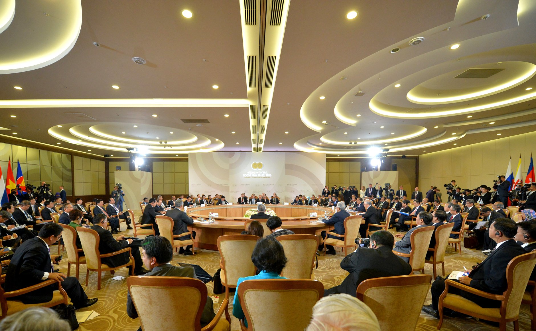 The third ASEAN — Russia Summit. Sochi, May 2016.